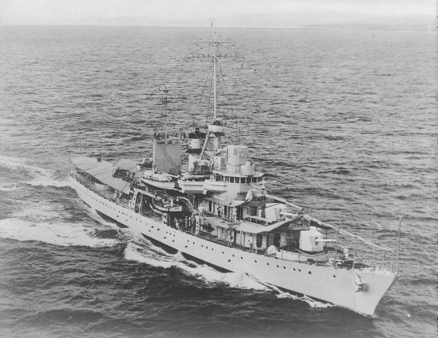 Starboard bow aerial view view of USS Erie underway in May 1940.